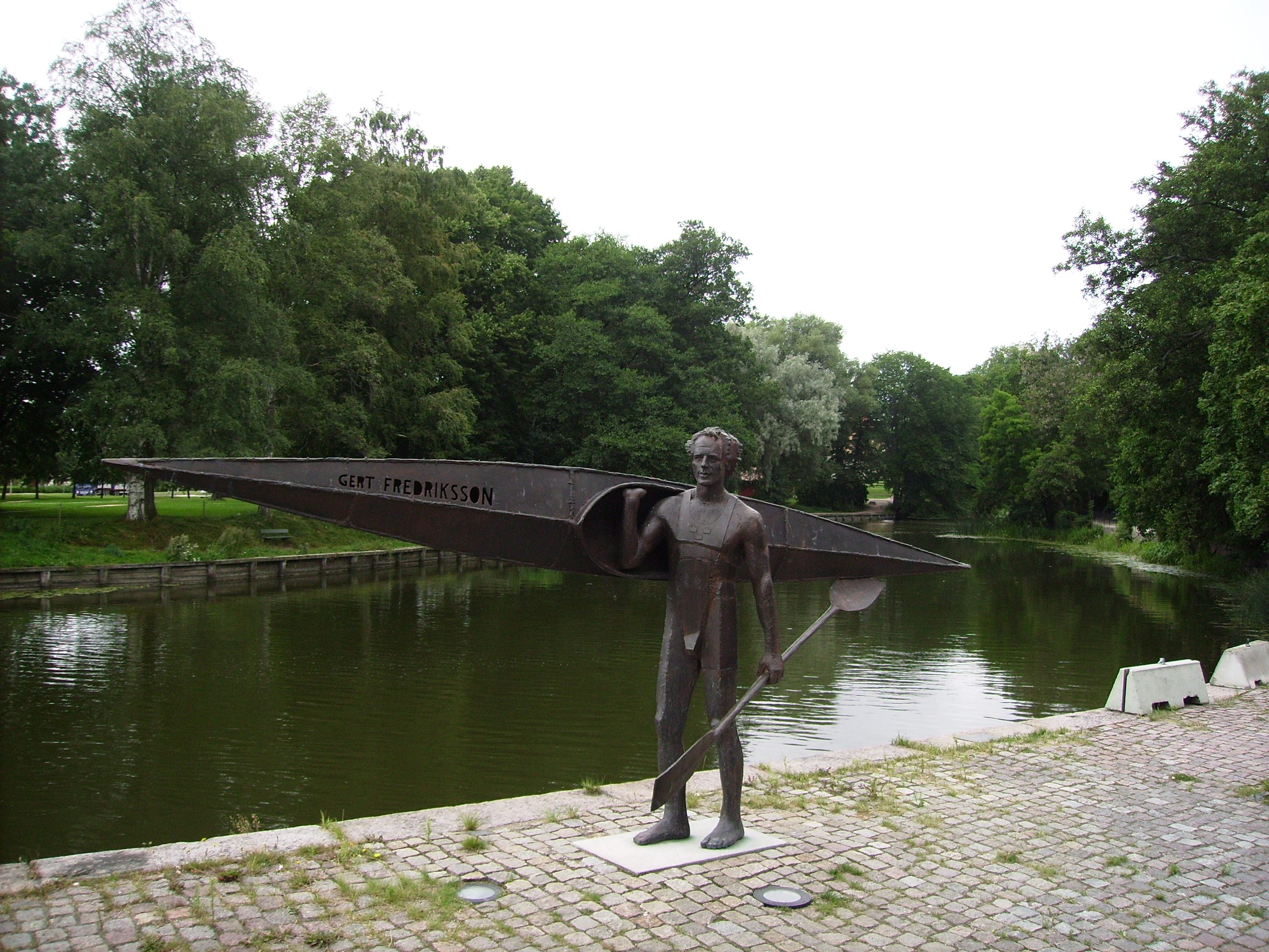 Picture of a statue of Gert Fredriksson in Nyköping